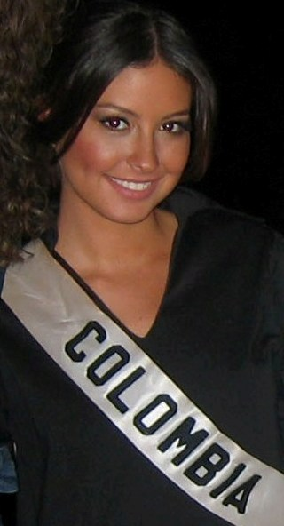 Taliana Vargas Miss Colombia 2007 1st runner Miss Universe 2008